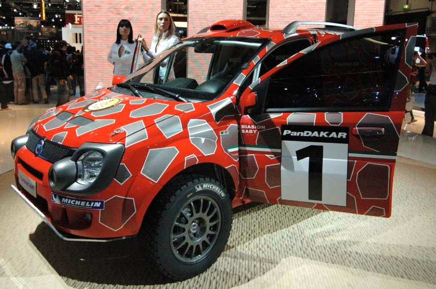 Fiat PanDakar